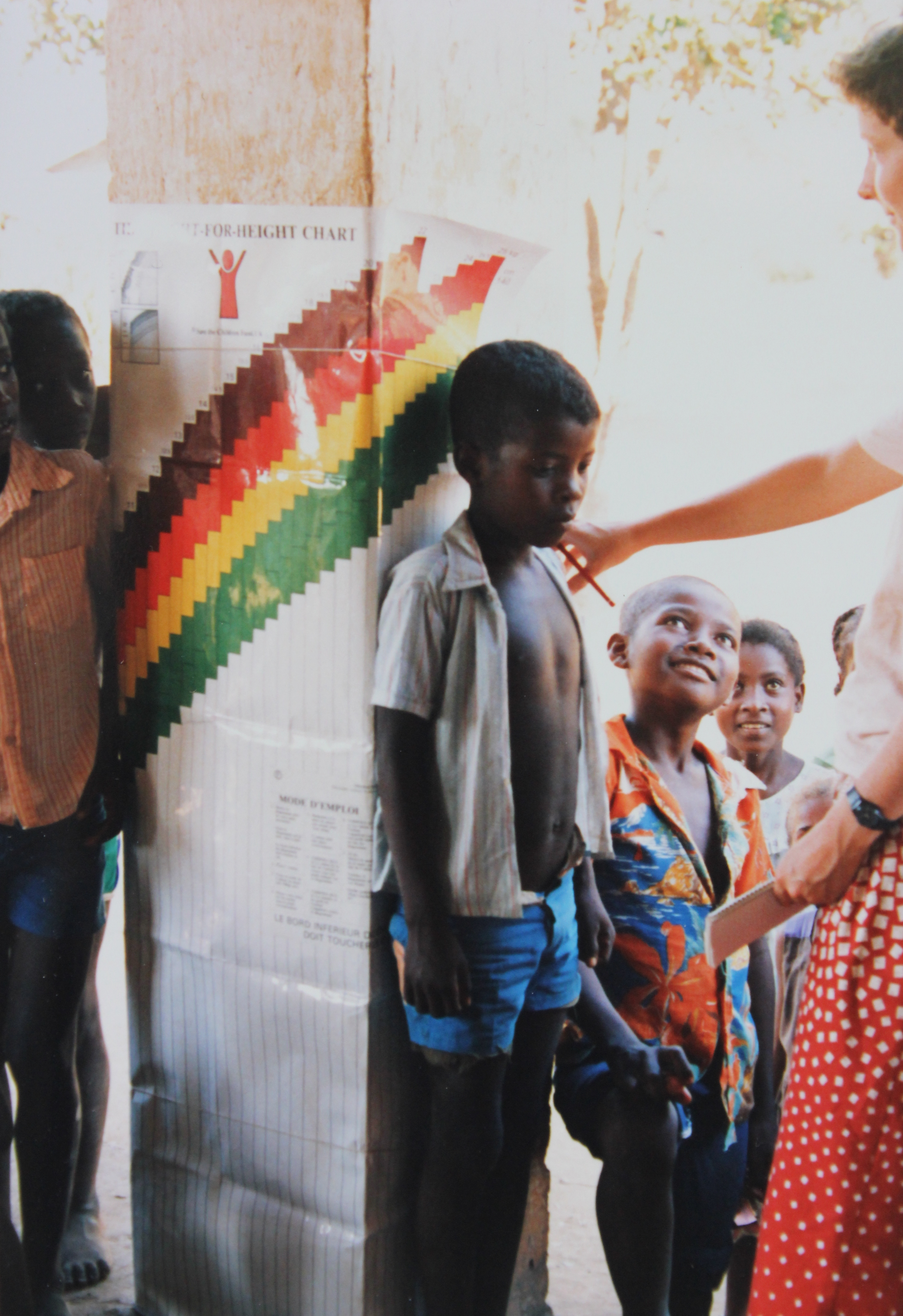 Field work using a chart for assessing malnutrition in Madagascar